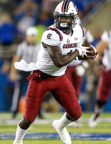 Photo by Chris Gillespie